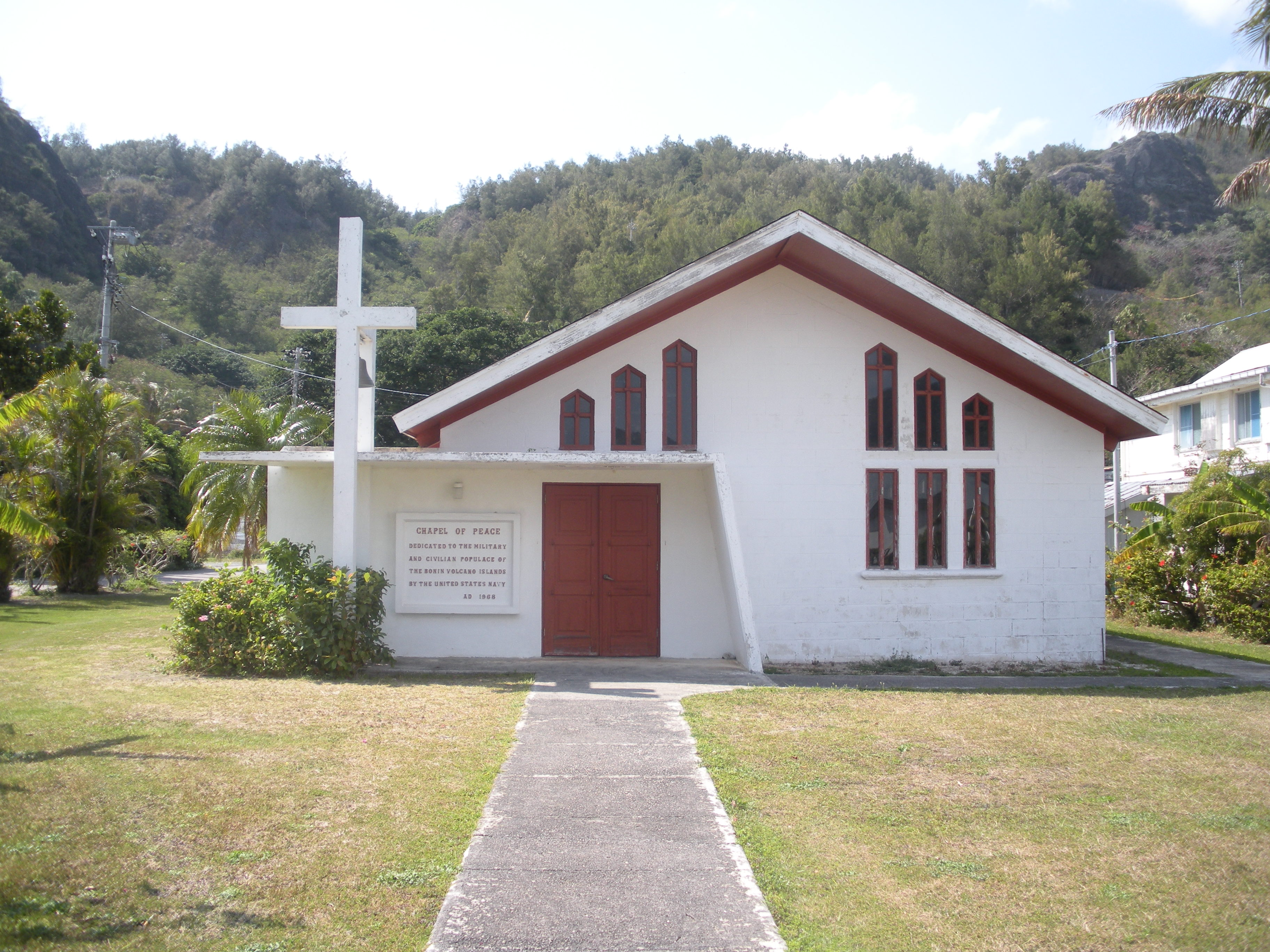 St. George's Church in Japan Bonin Islands Chichijima Island